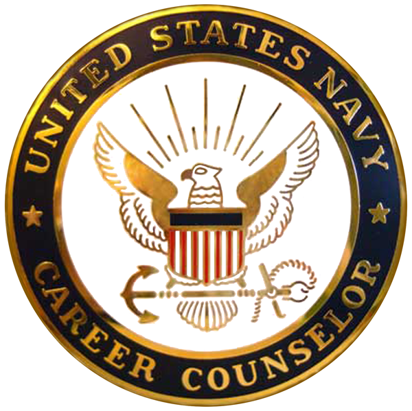 United States Navy Career Councelor badge